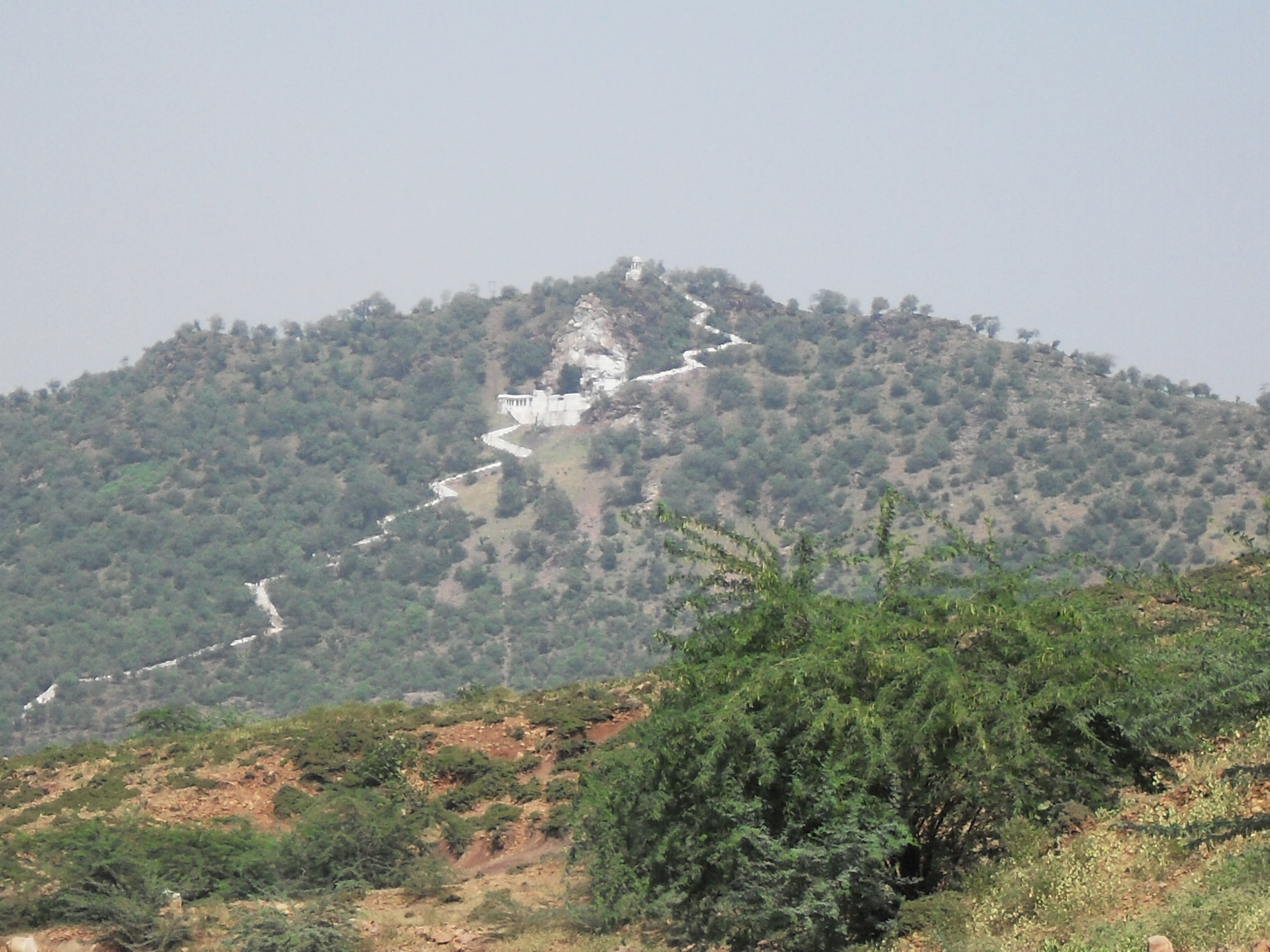 RAM GARH MATA JI